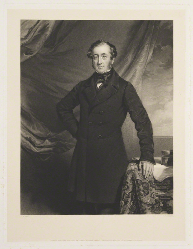 Portrait of John Abel Smith (1802-1871)